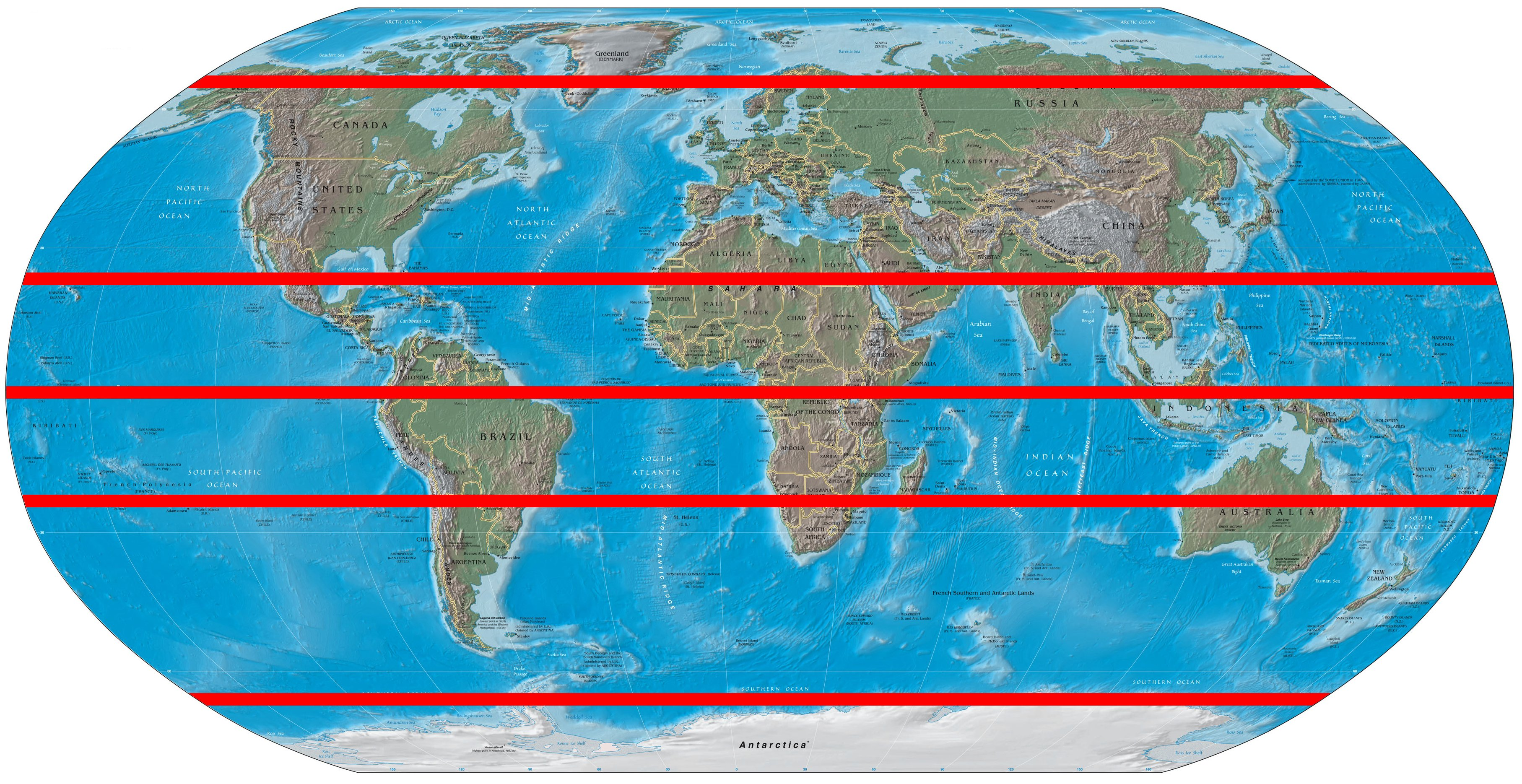 Based on public domain CIA World Fact book image with the five major latitudes (Arctic Circle, Tropic of Cancer, Equator, Tropic of Capricorn, Antarctic Circle) bolded in red